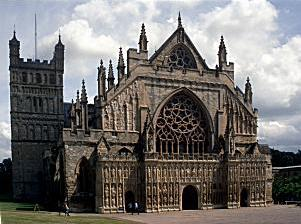 Exeter Cathedral in Exeter (England) from the west, taken in the summer of 2003 by Robert Brewer (rbrwr) and licensed under the GFDL and cc-by-sa. From Image:Exeter_Cathedral_(West_End)_300px.jpg. For the record, the verticals have been straightened up a bit with the perspective tool in the GIMP.